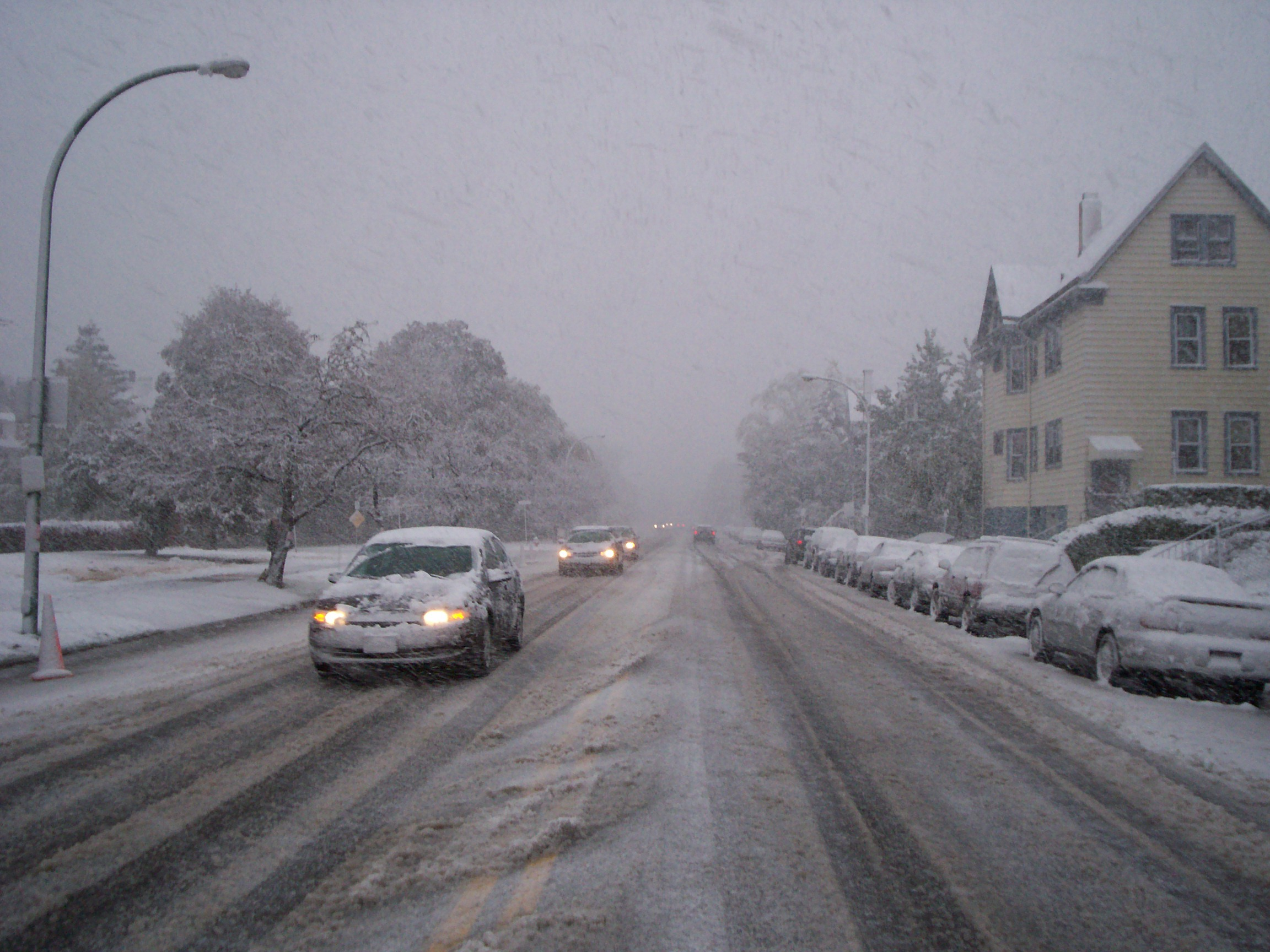 Looking to the East on Forest and Elmwood Avenues in Buffalo, New York during the early stages of the Friday the 13, 2006 October lake effect snow storm.